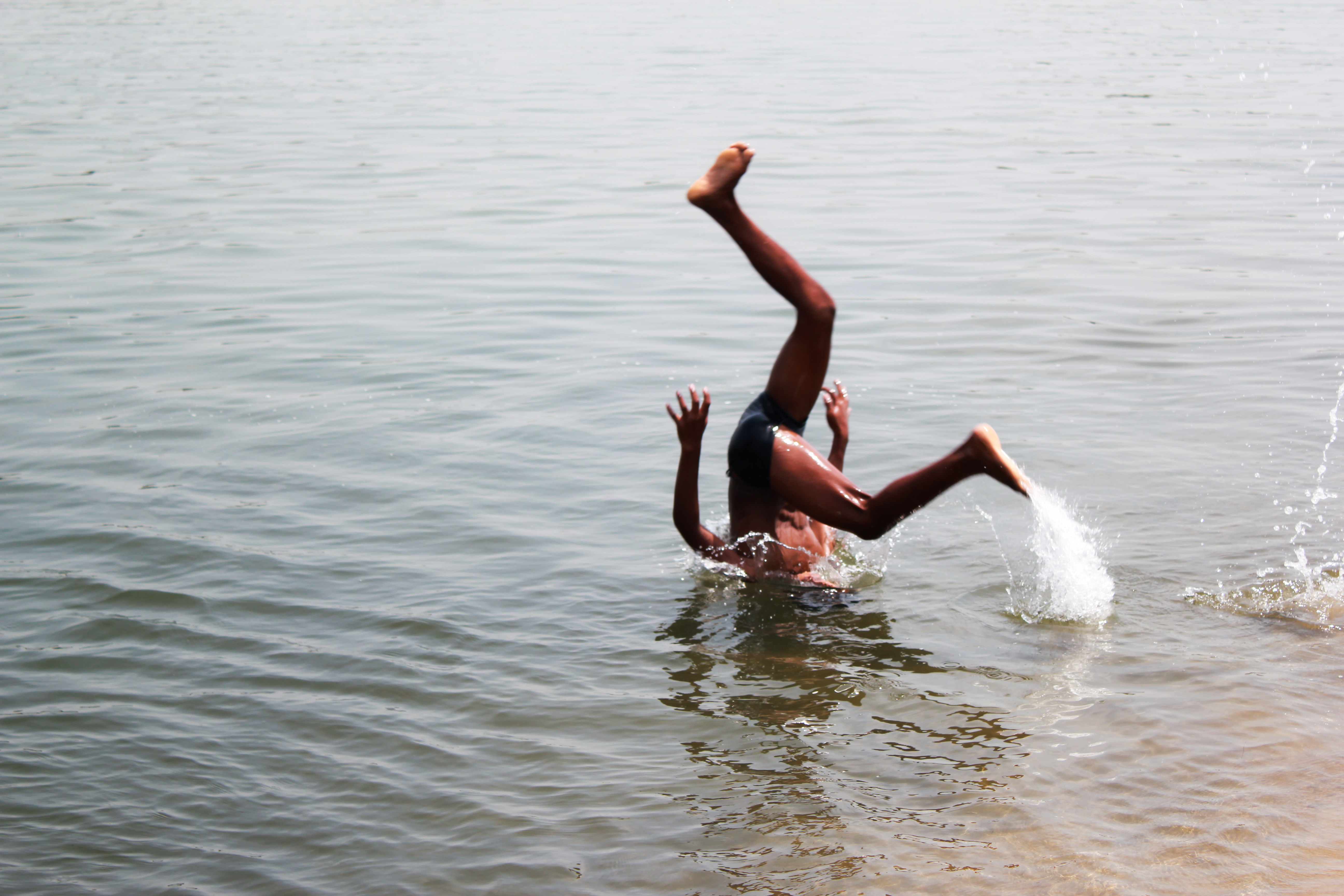 A kid dives into the village lake...